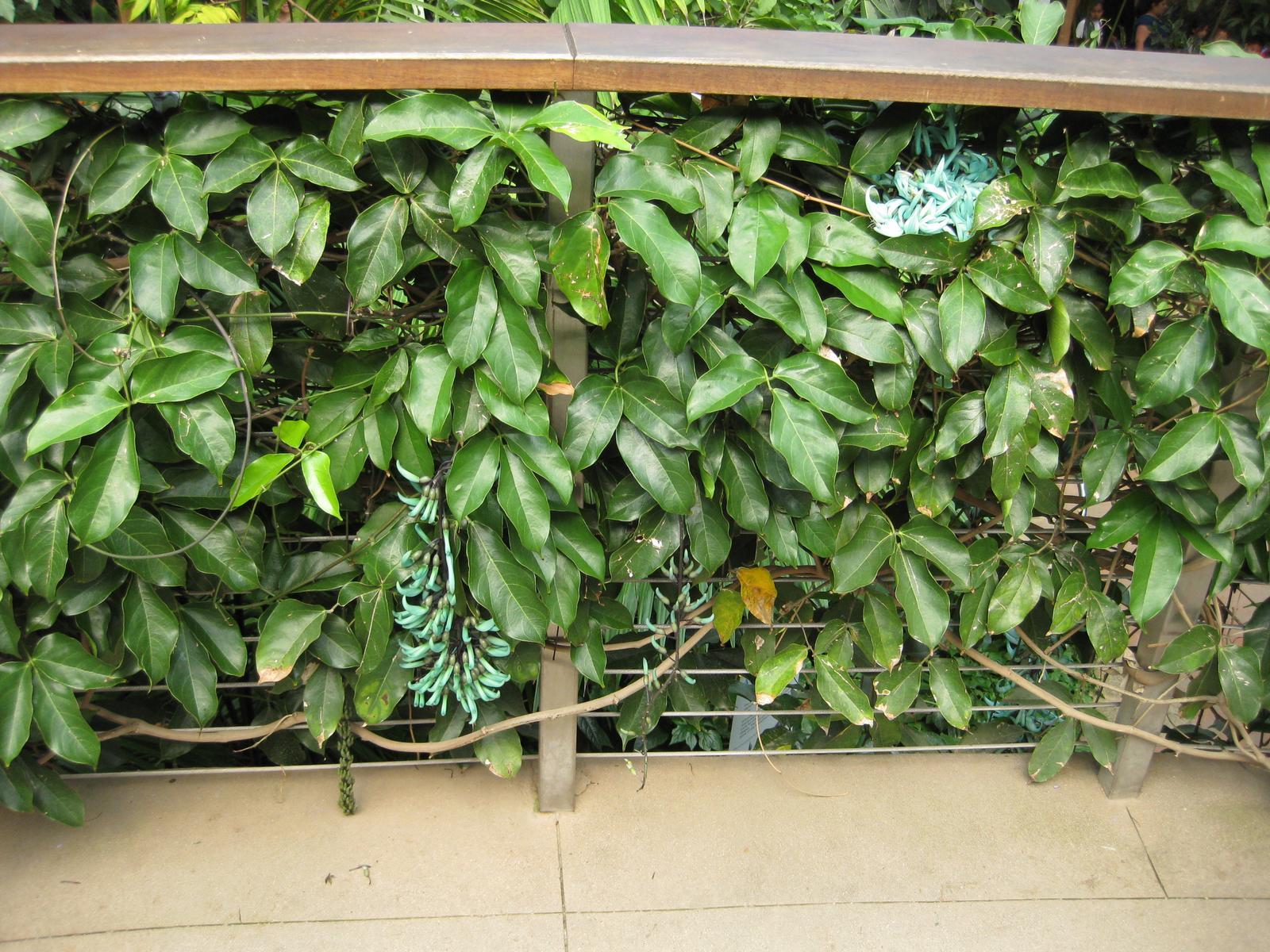 Photographed at Huntington Gardens (Los Angeles) in March